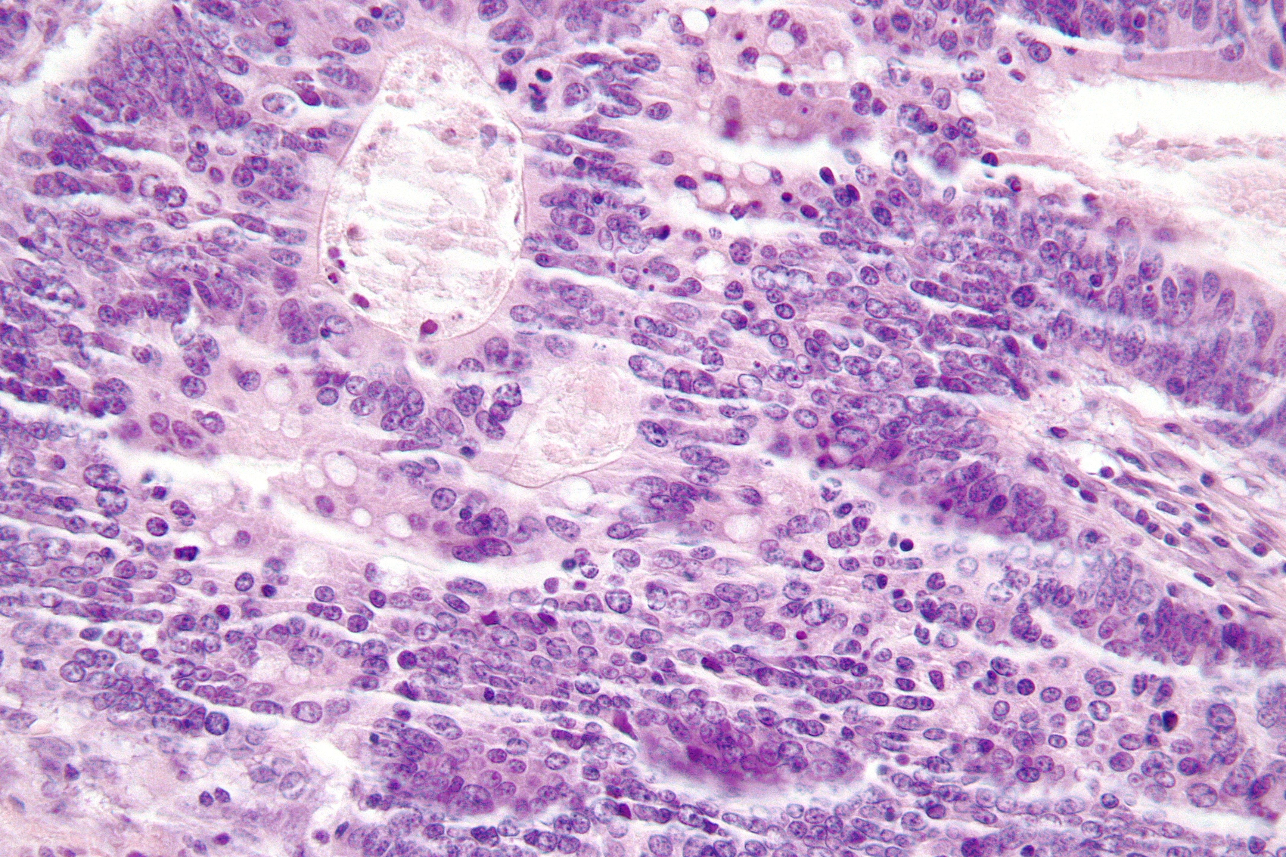 Very high magnification micrograph of tumour infiltrating lymphocytes, abbreviated TILs, in a case of colorectal carcinoma. TILs may also be spelled tumor infiltrating lymphocytes. H&E stain. When TILs are present the lymphocytes are found between the tumour cells; cells in the stroma surrounding the tumour cells do not count.[1] It should be noted that definitions for TILs vary. TILs are associated with microsatellite instability (MSI) cancers, as seen in Lynch syndrome.[2] Related images High mag. Very high mag. References ↑ (Aug 2009). "Lynch syndrome (hereditary non-polyposis colorectal cancer) and endometrial carcinoma.". J Clin Pathol 62 (8): 679-84. ↑ (Dec 2010). "Microsatellite instability in colorectal cancer.". Asia Pac J Clin Oncol 6 (4): 260-9.